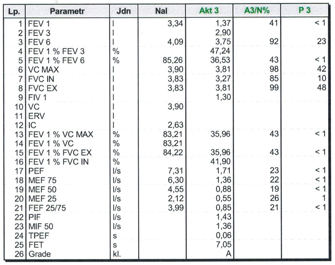 Results of a spirometry test of a 31 year old female patient with two laryngeal stenoses (scar at the level of vocal folds after left-sided chordectomy and post-intubation subglottic stenosis).